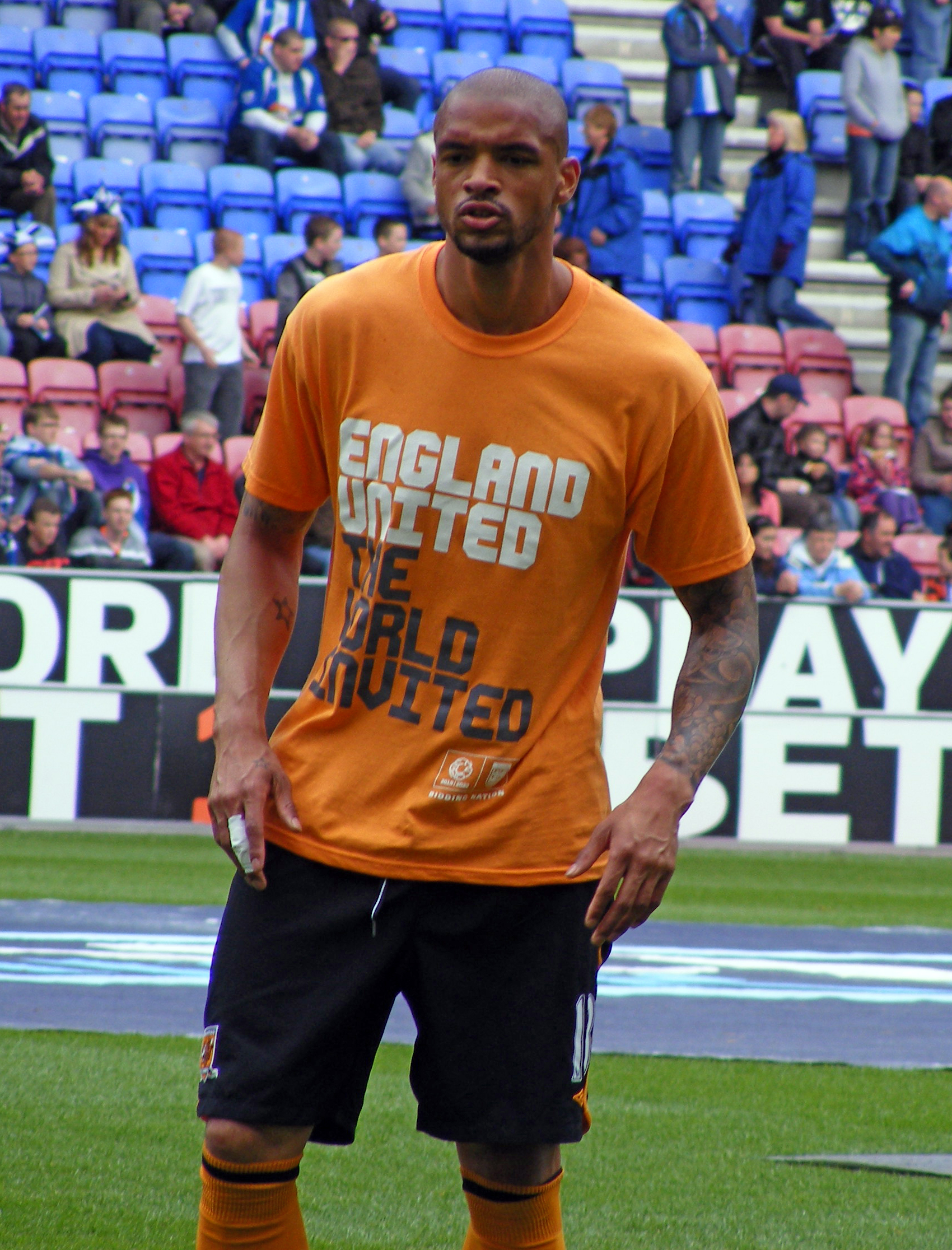 Caleb Folan of Hull City F.C. warms up, Wigan Athletic vs Hull City, 3 May 2010